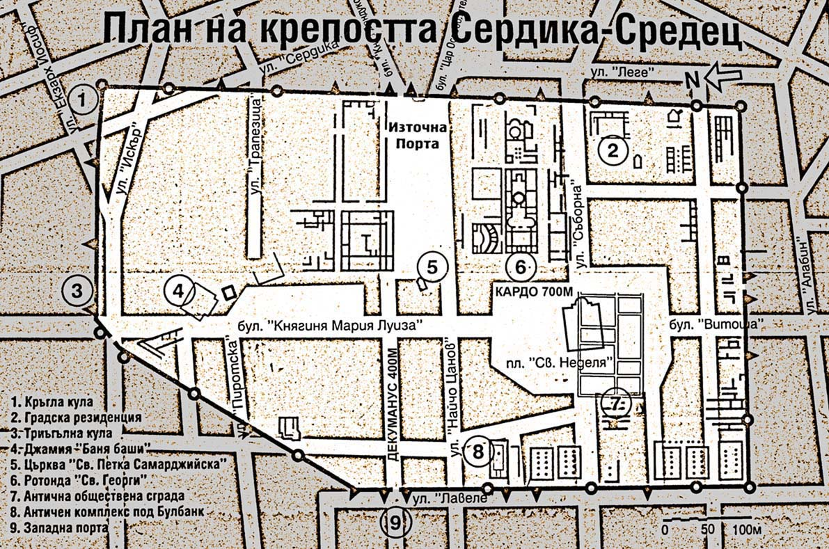 Sofia - Serdika fortres